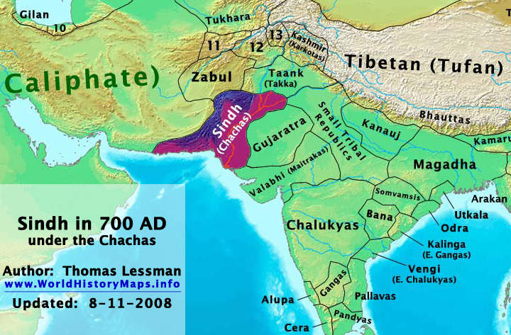 The Kingdom of of Sindh Sindh in 700 AD.